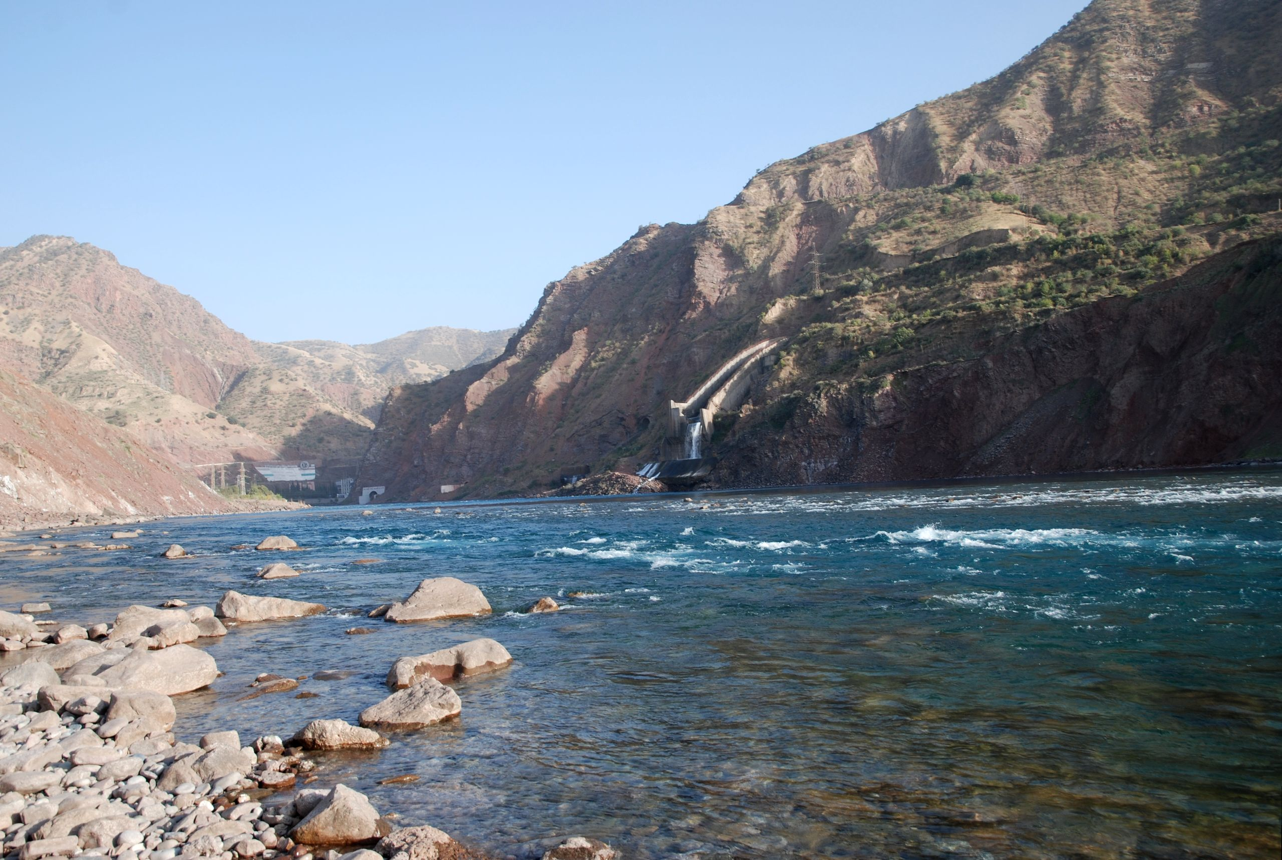 Nurek, vakhsh river